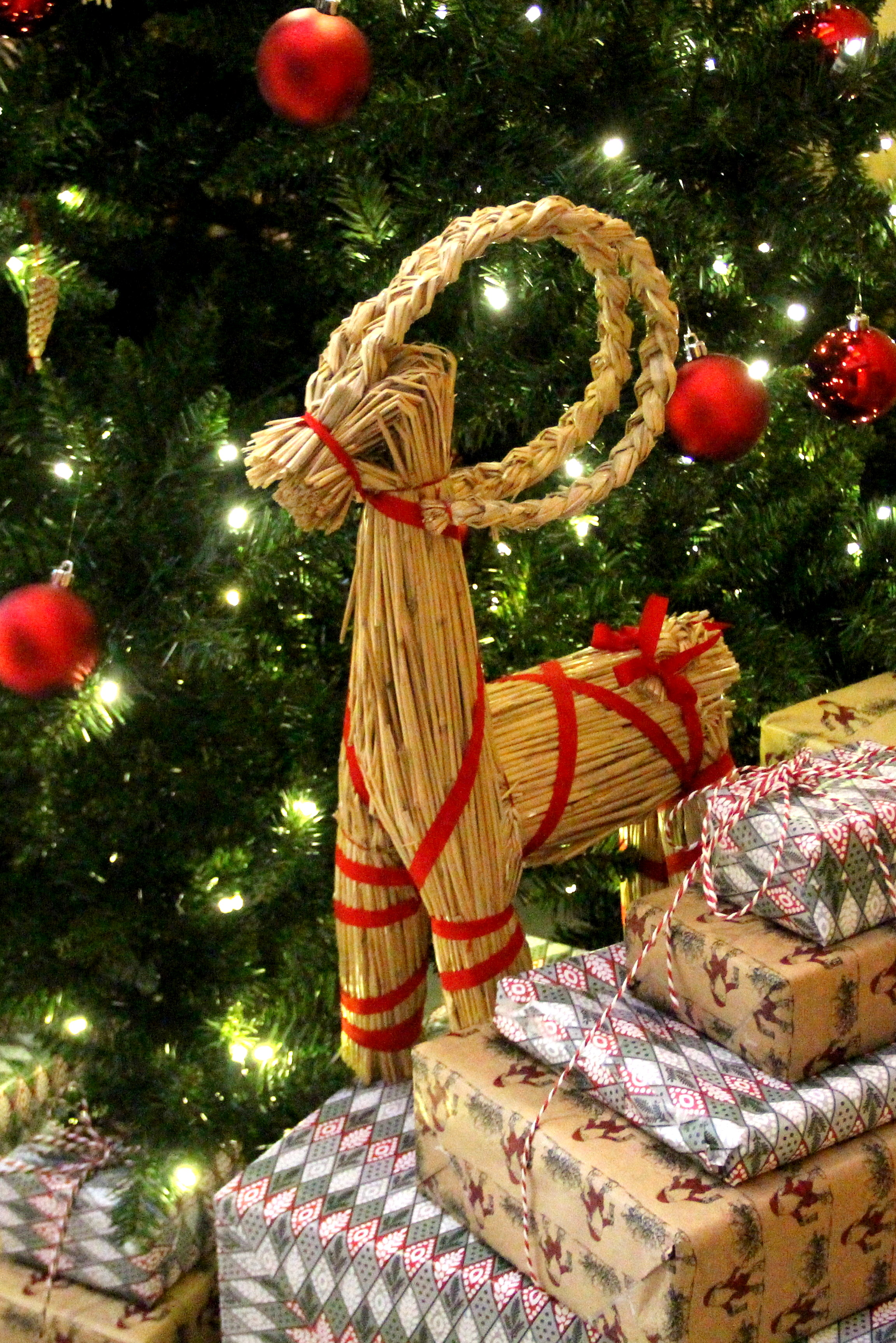 Straw Yule ornaments at the Women's Economic Empowerment Edit-a-thon at the Embassy of Sweden